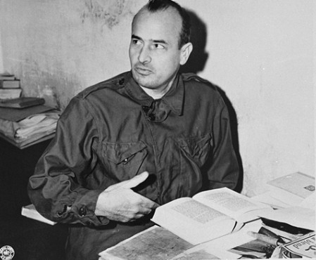 Hans Frank in his cell in Nuremberg